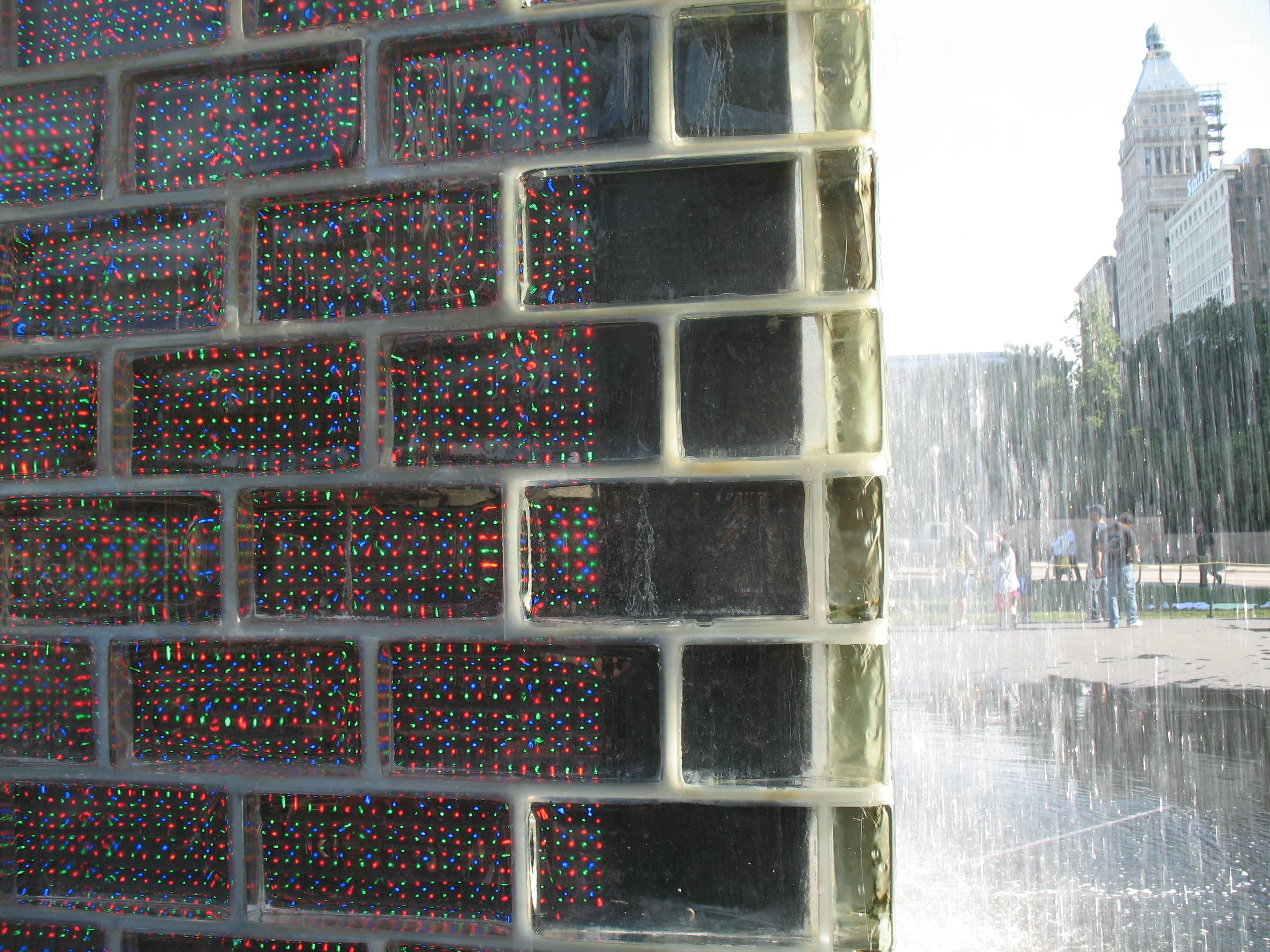 Crown Fountain in Chicago